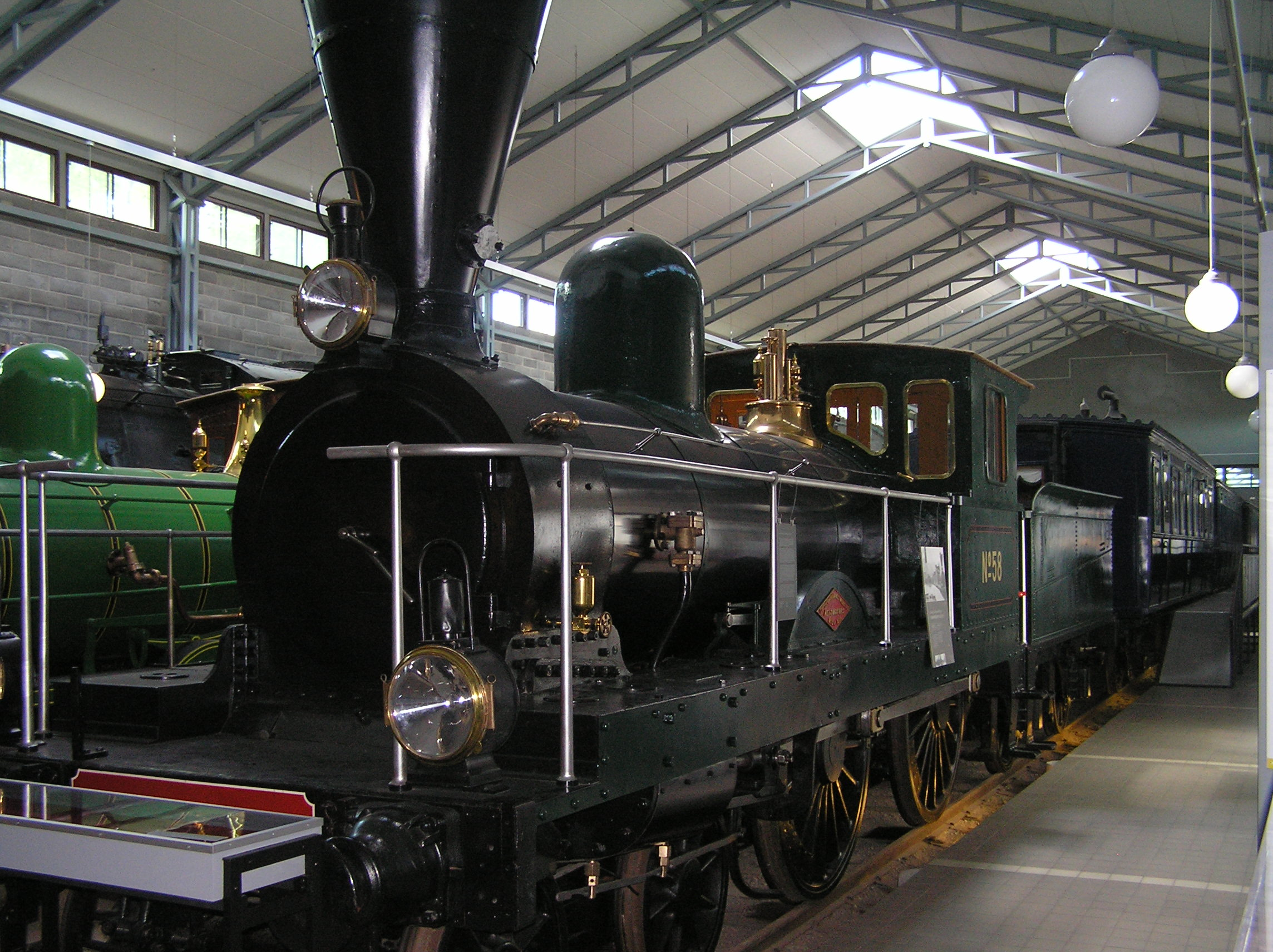 A5 4-4-0 No 58 locomotive in the Finnish Railway Museum. Built by Helsingfors in 1875